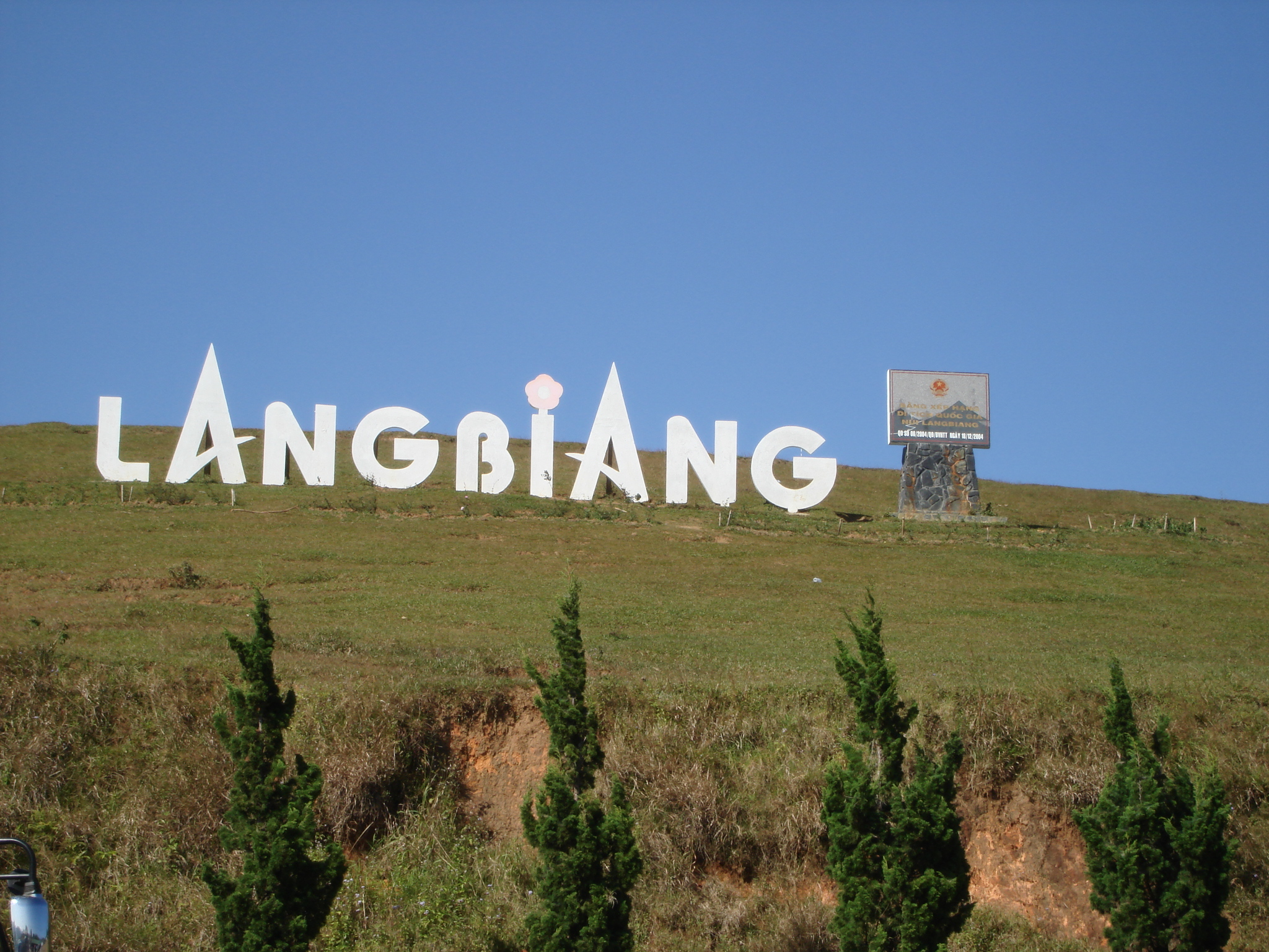 Langbiang Mountain in Lac Duong District, Lam Dong Province, Vietnam